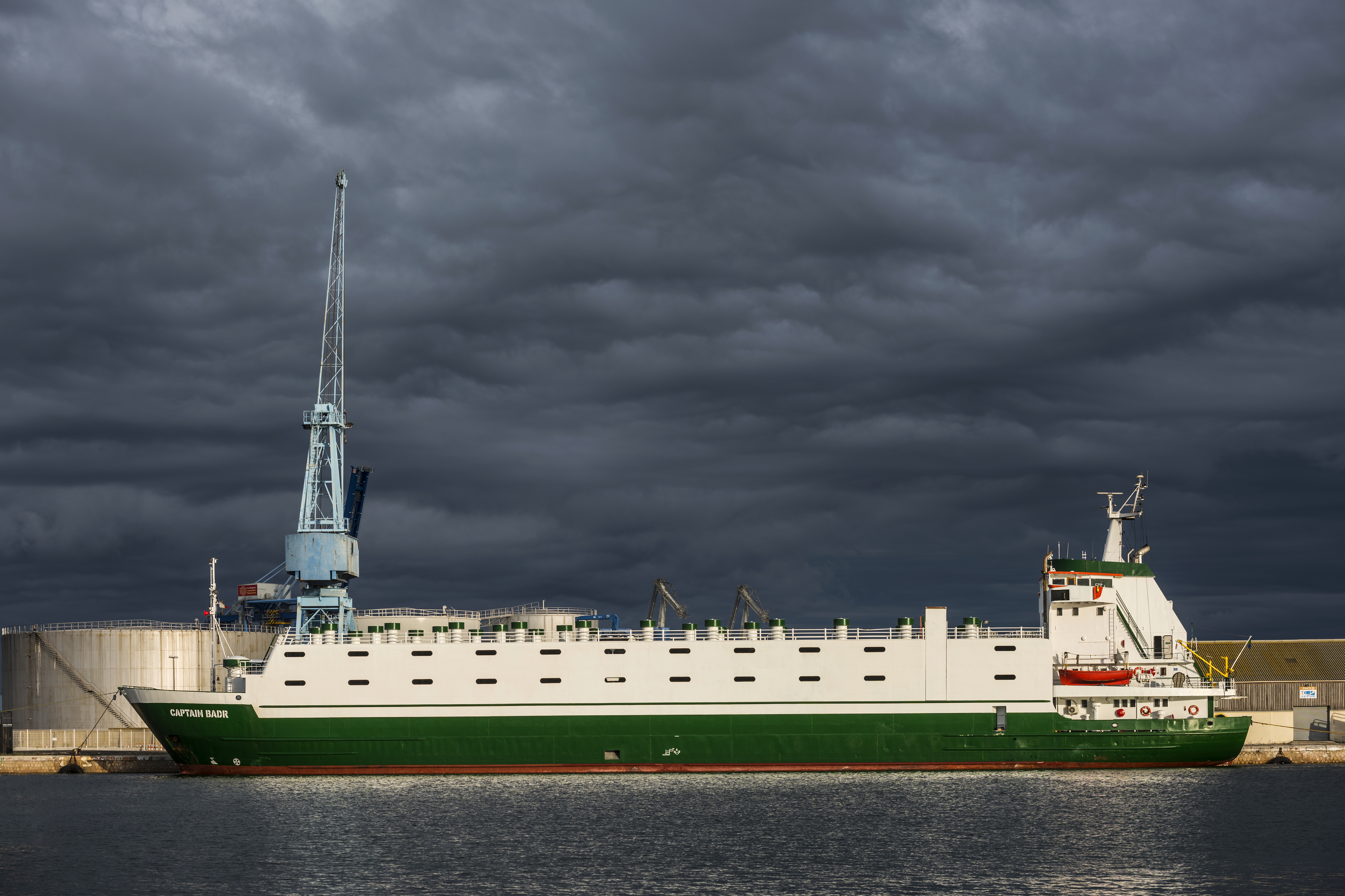 CAPTAIN BADR (ship, 1978). Sète, Hérault, France